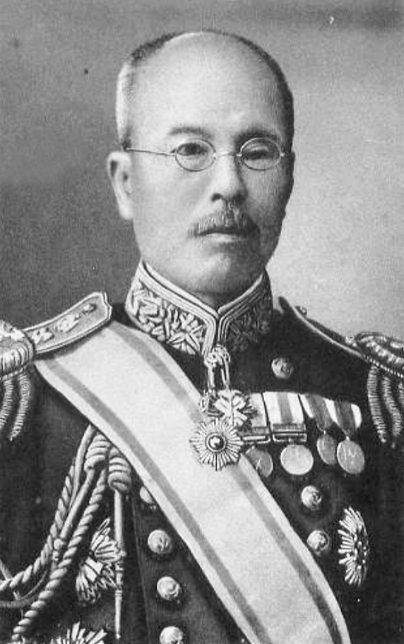 Portrait of Misu Sotaro. He was an admiral of the Imperial Japanese Navy (1878 - 1914 CE).